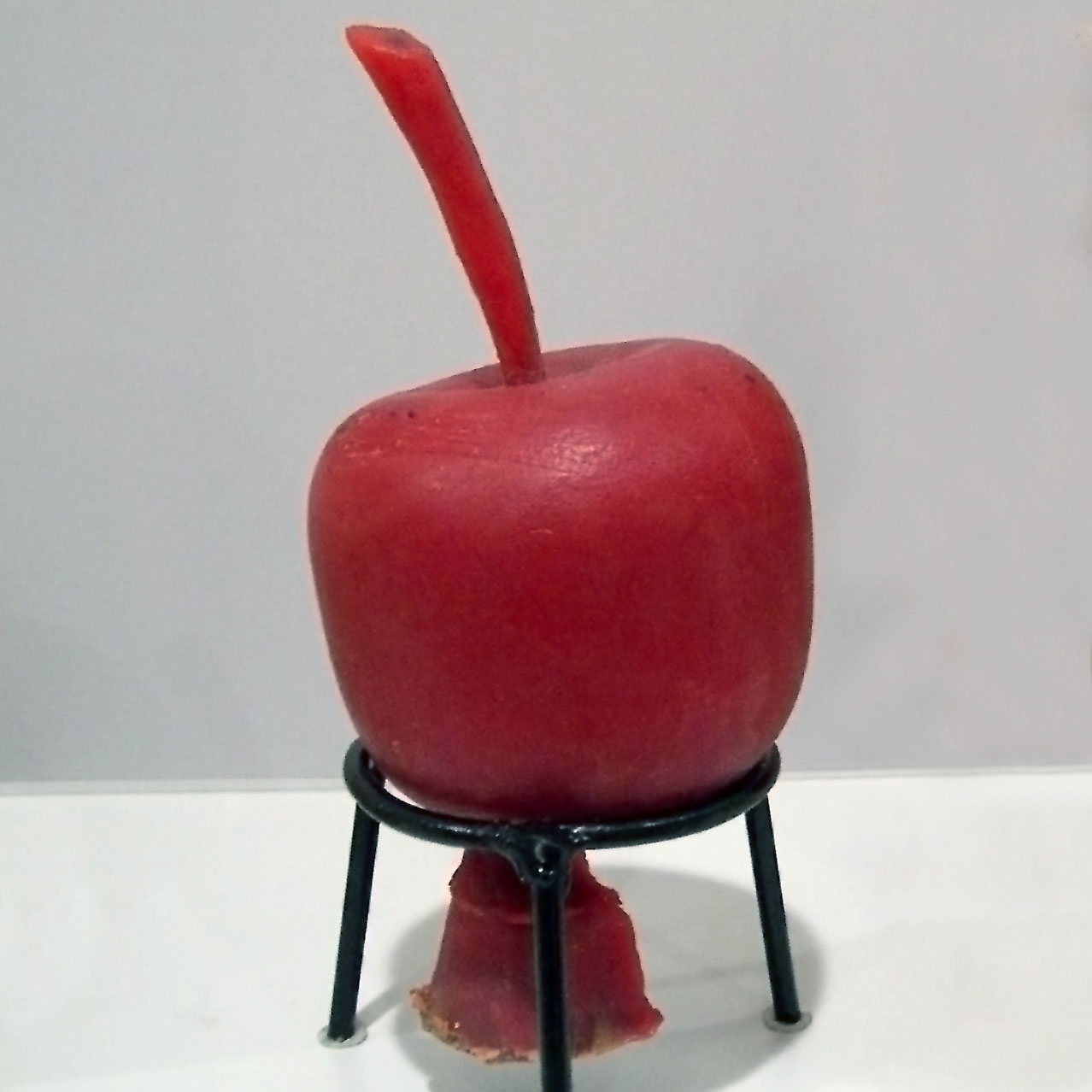 Lost Wax Casting: original artwork of an apple from paraffine. A hollow cast in paraffine, step 3 of the lost-wax bronze casting process